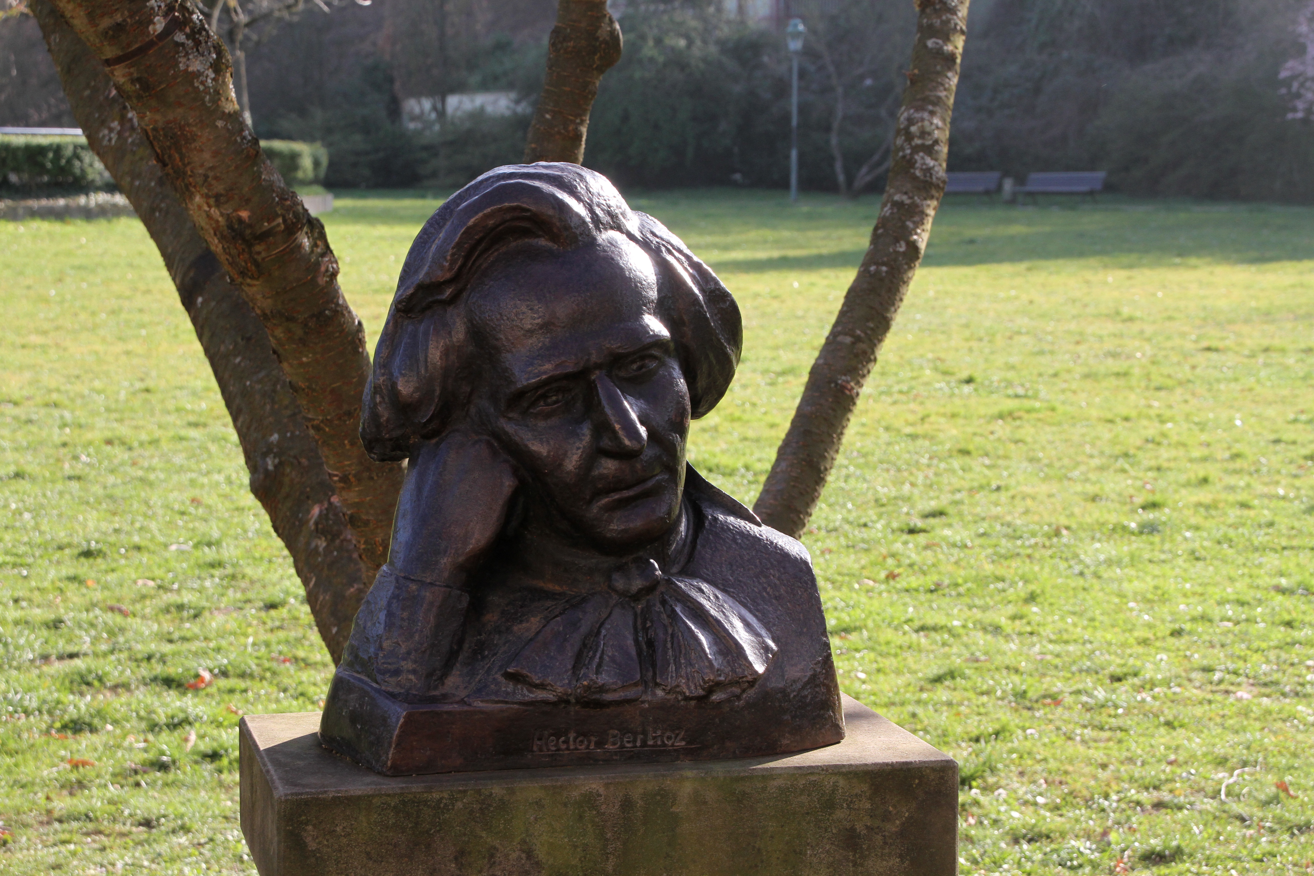 Bust of the composer Hector Berlioz (1803-1869) by Bernhard Horn (1909-2002) at the Festival Hall in Baden-Baden.